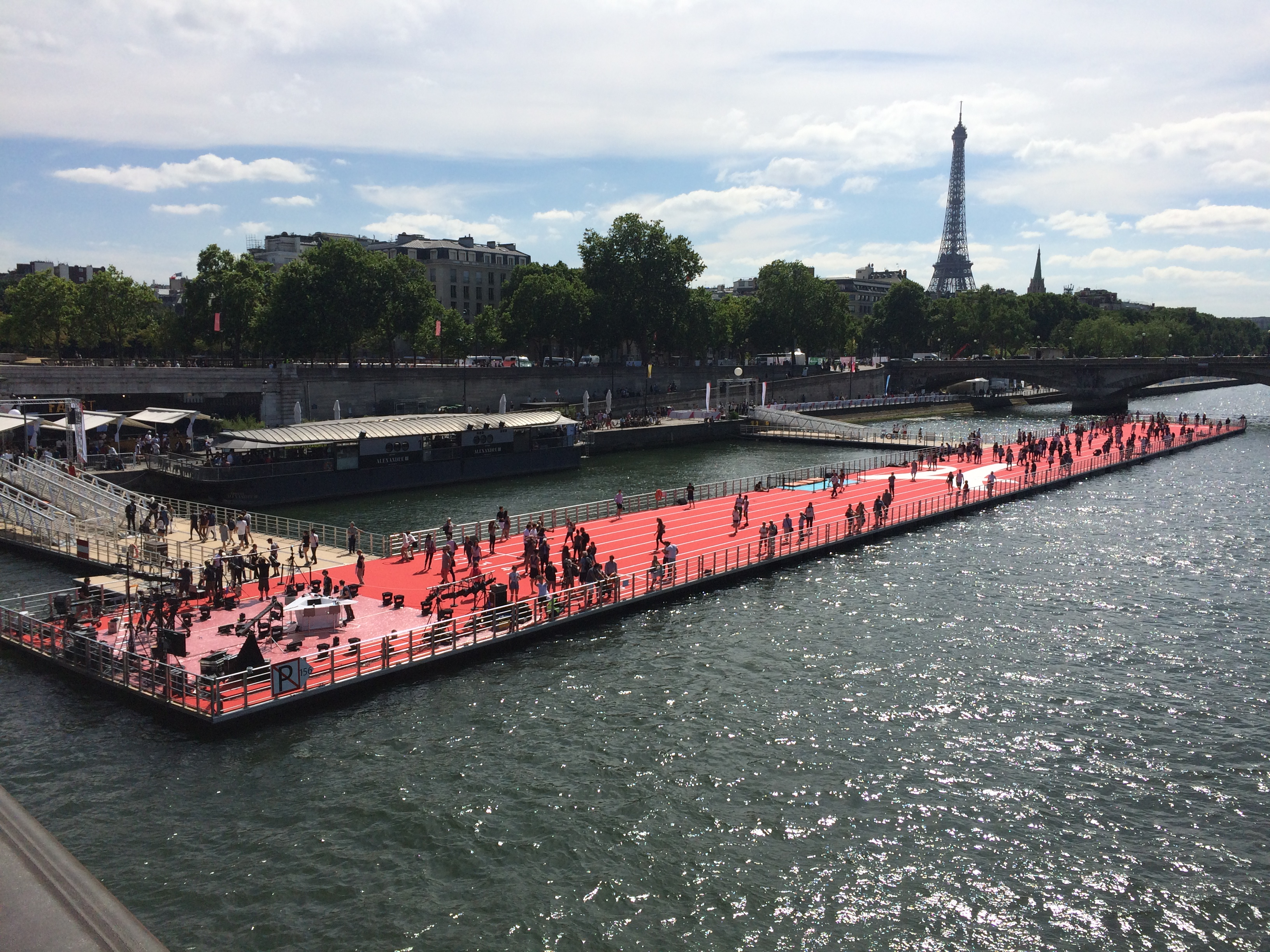 Picture of the floating track next to the pont Alexandre III during Olympic Days in Paris.